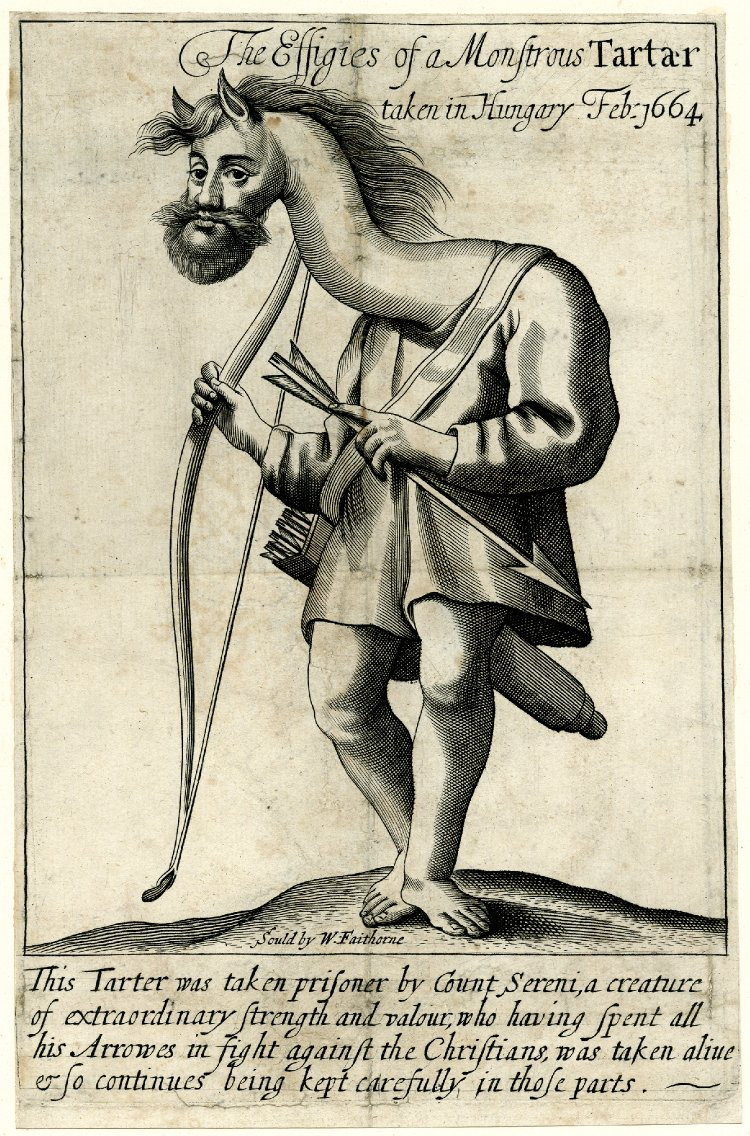 Zrínyi Miklós az 1664. január-februári téli hadjárat során ejthette fogságba a lófejű tatárt